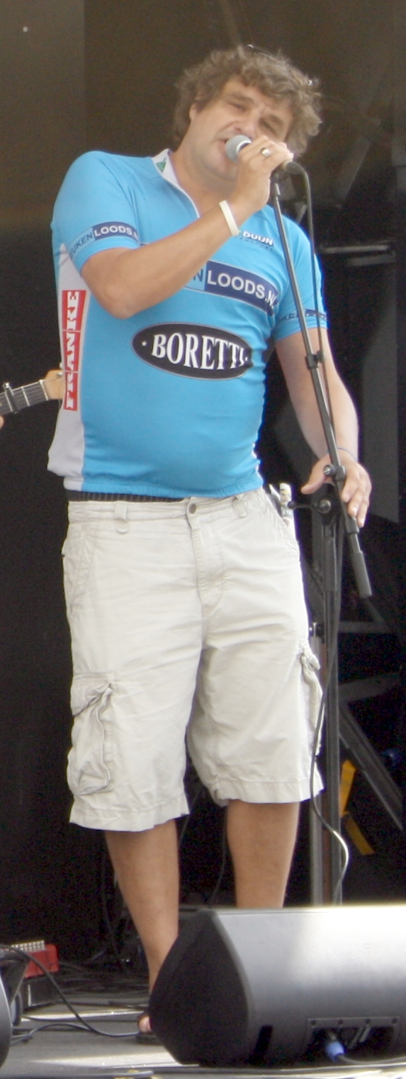 Frank Lammers at the World Ports Classic 2013